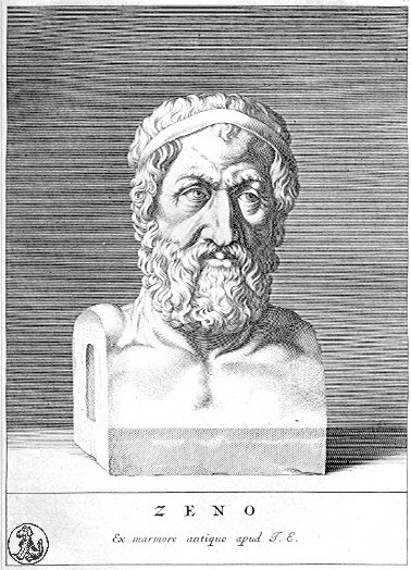 Zeno of Citium, Greek philosopher